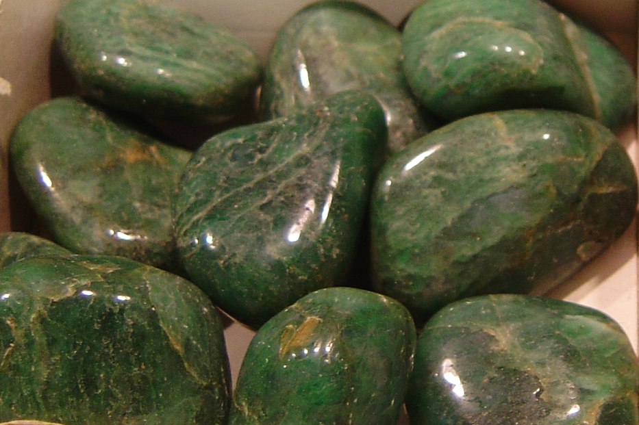 Fuschite I took this photo in october 2005